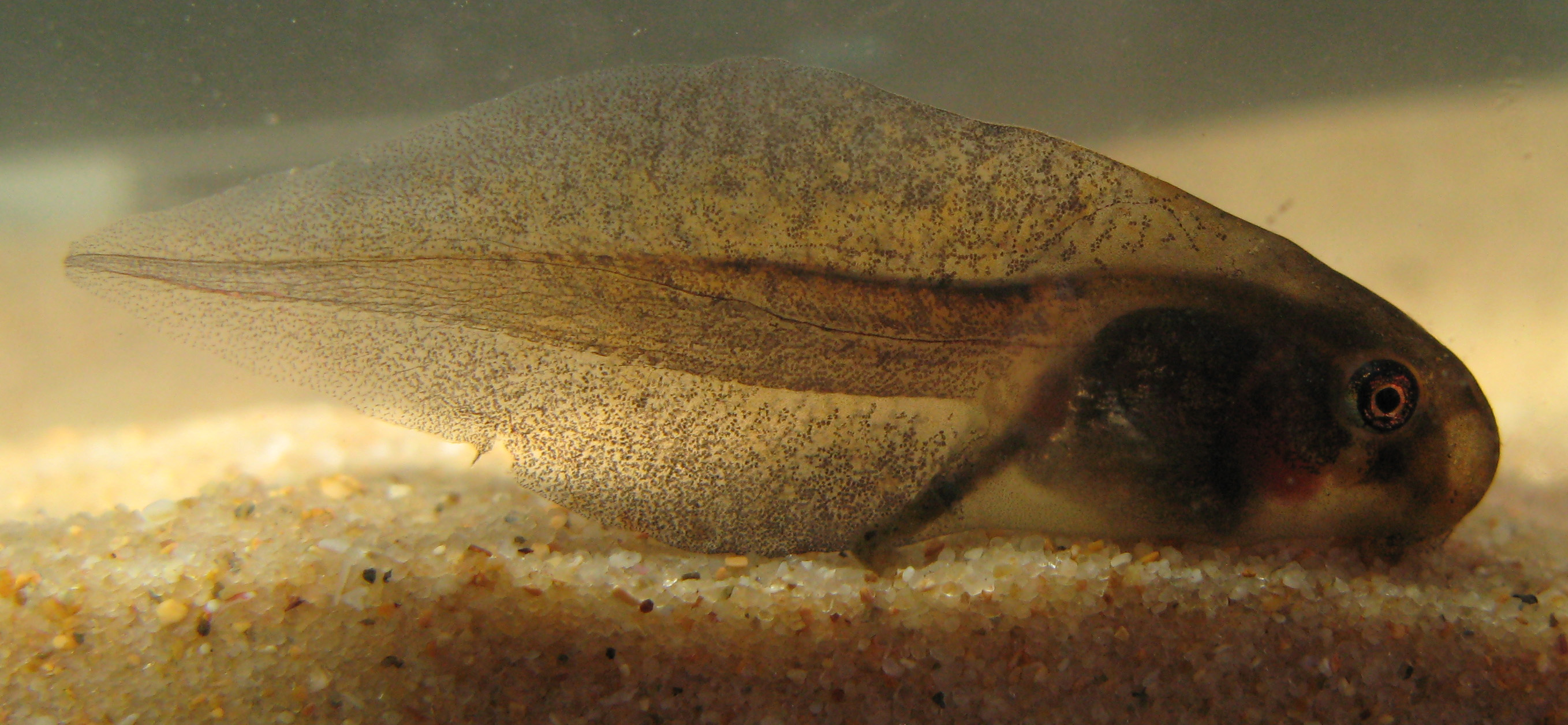 Tadpole of Haswell's Frog (Paracrinia haswelli)